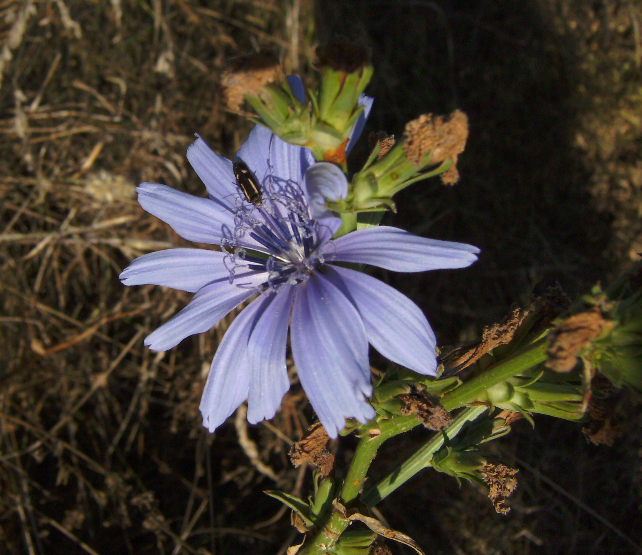 Cichorium intybus flower, Castelltallat, Catalonia